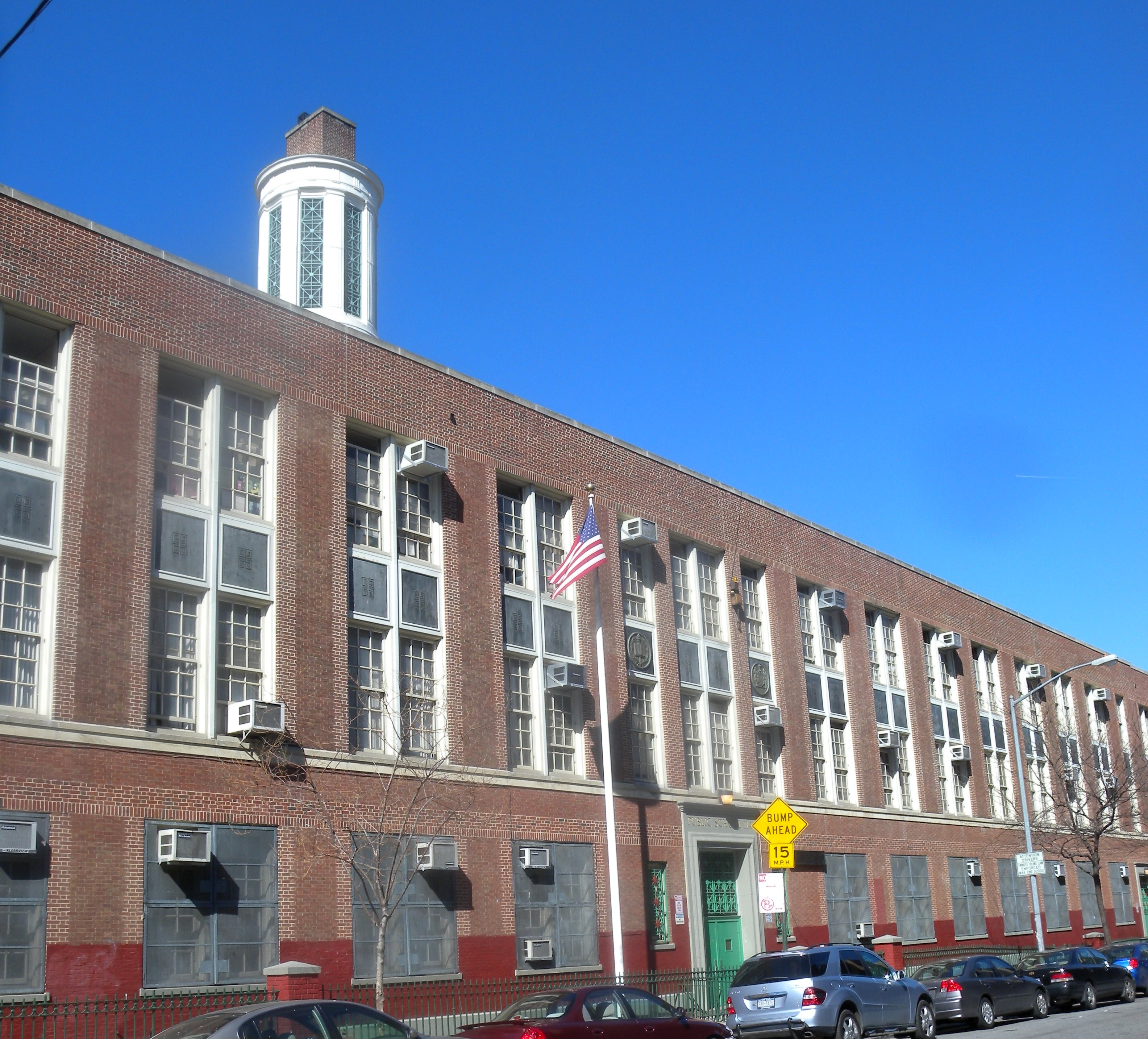 Looking north across Cromwell Avenue at PS 114 on a sunny midday. ZIP 10452